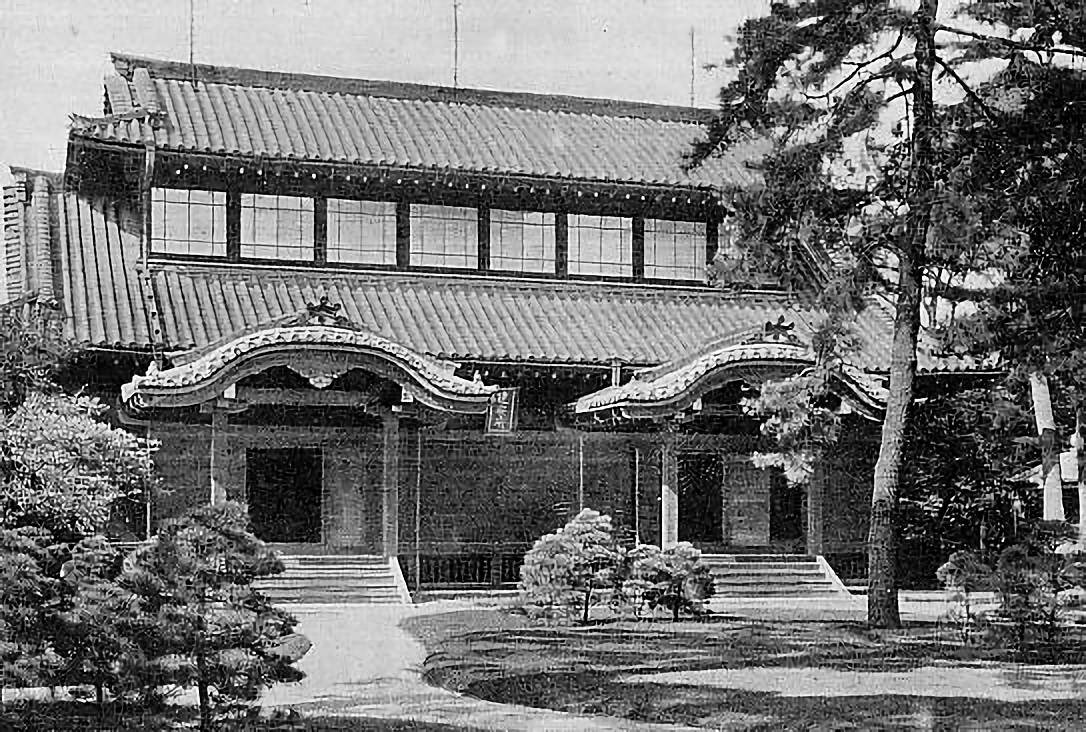 Kenanfu (Hall where various spoils of the Russo-Japanese War were collected)